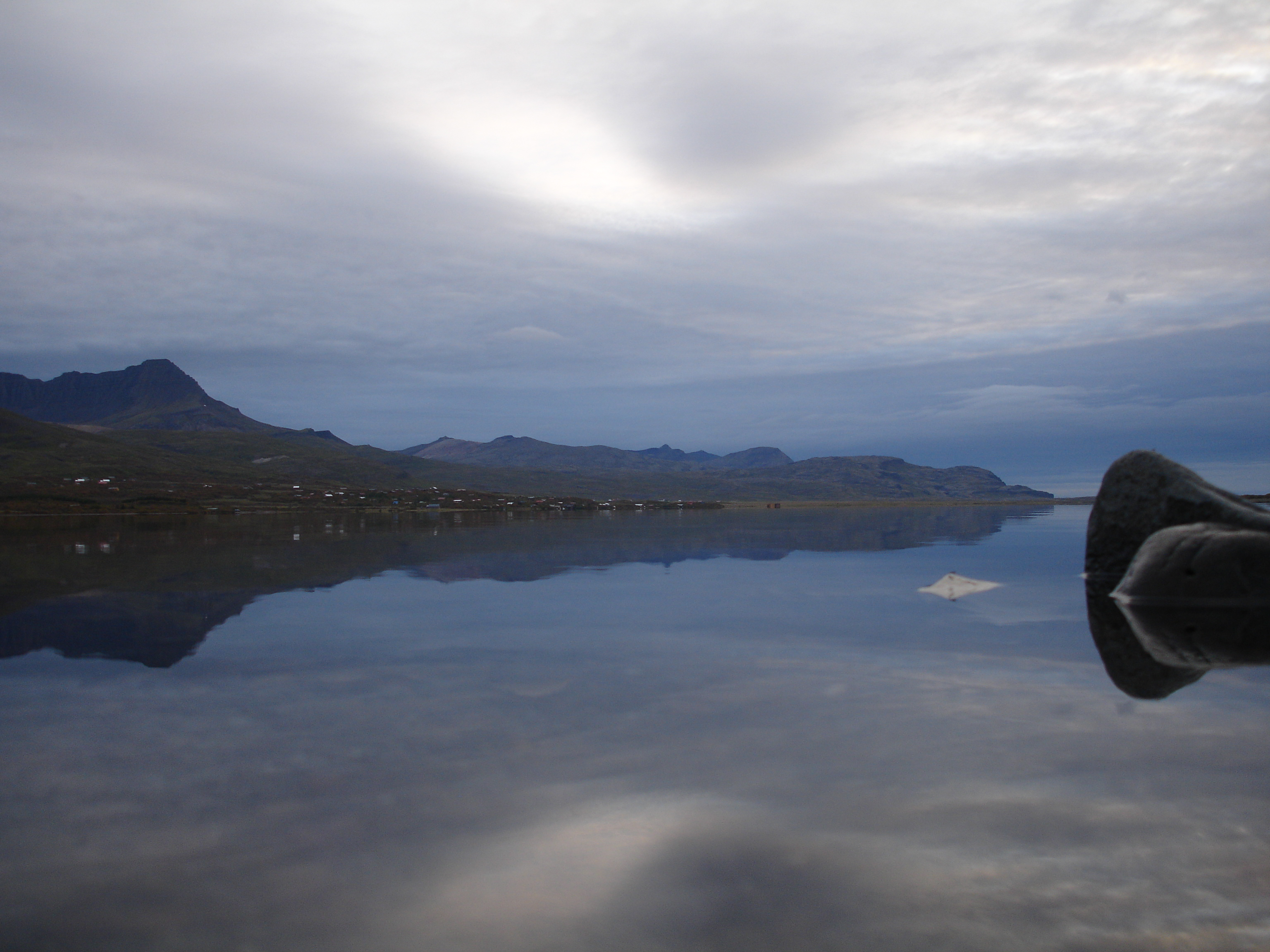 Skessuhorn (the mountain peak) reflected in Skorradalsvatn (the lake) in Skorradalur (the valley and name of the municipality), Iceland.